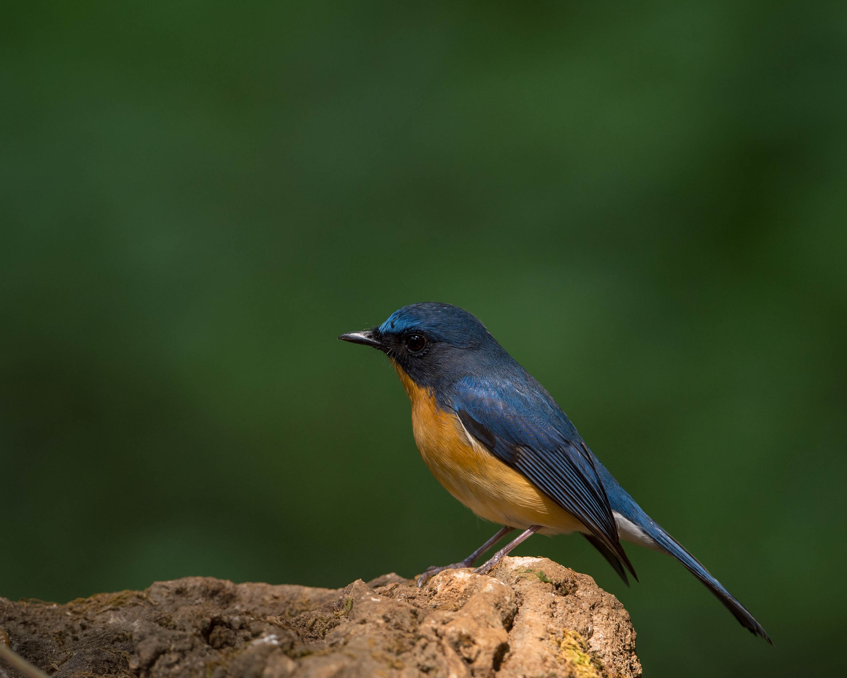 Chinese Blue-Flycatcher (Cyornis glaucicomans). 24th February 2013 at Thai/Myanmar Border. Doi Ang Khang National Park, Chiang Mai, Thailand.